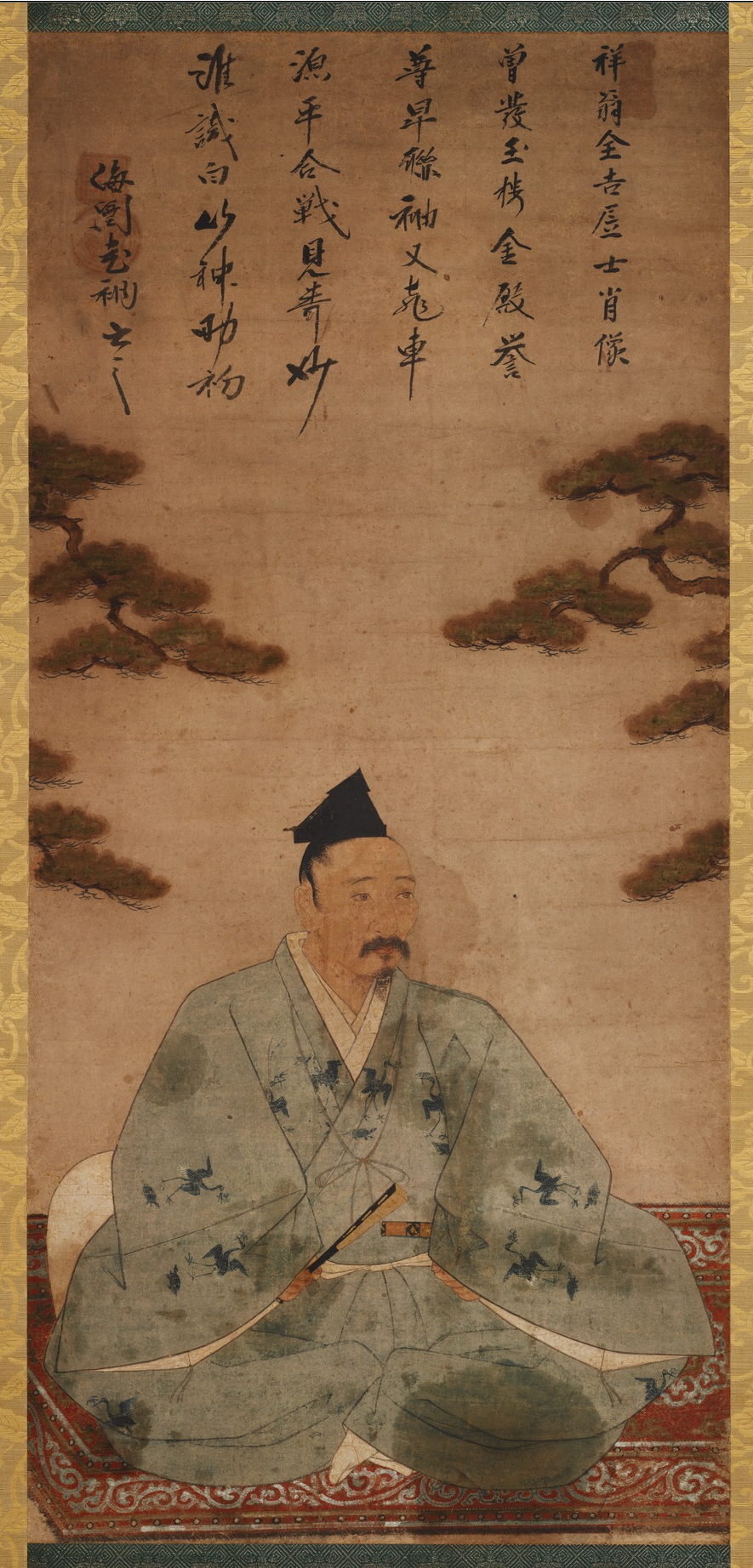 Portrait of Momonoi Naoaki by Tosa Mitsunobu (size: 89,6 x 41,8). Important Cultural Property, Tokyo National Museum.